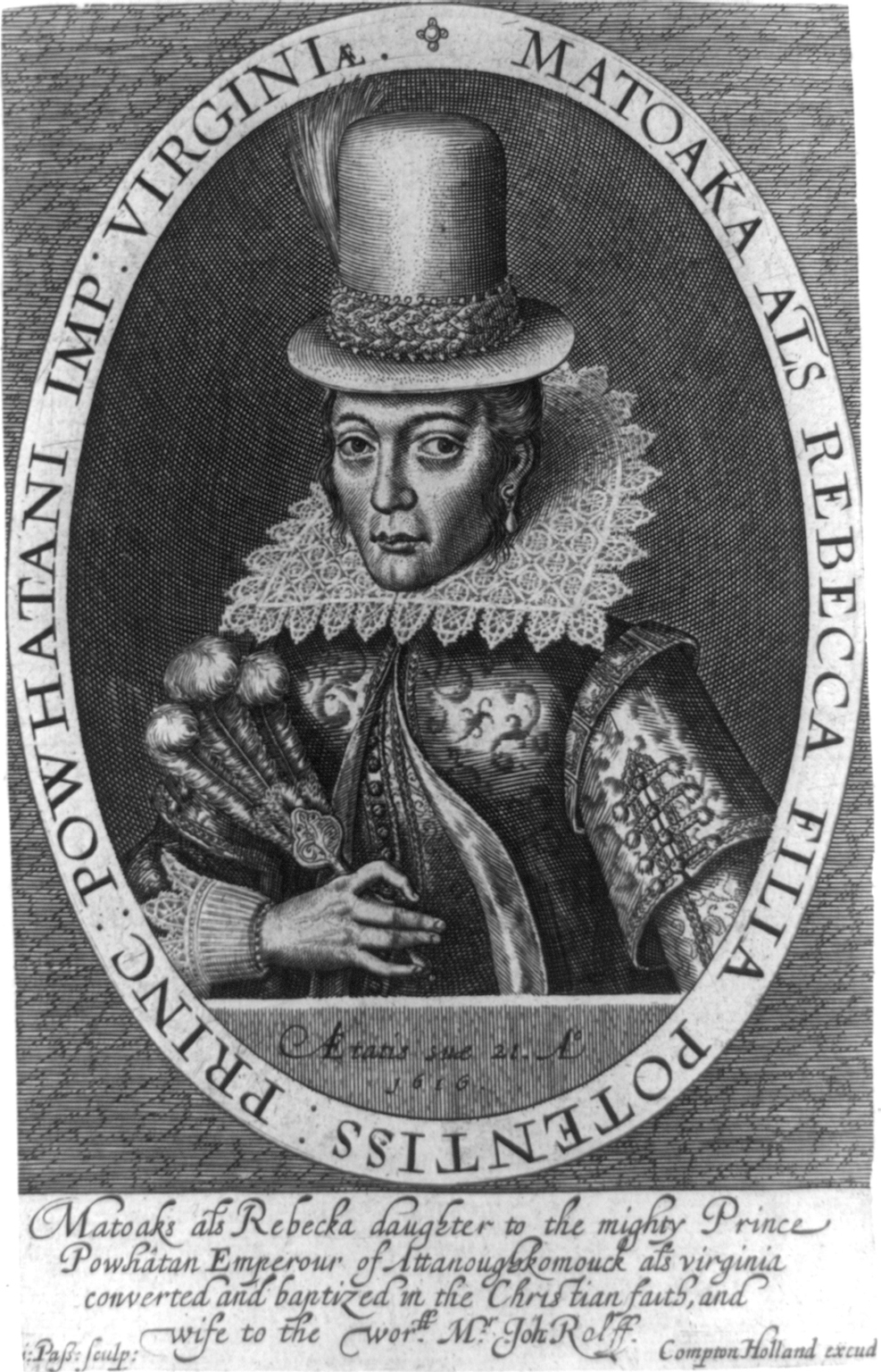 Portrait of Pocahontas The caption reads "Matoaks als Rebecka daughter to the mighty Prince Powhâtan Emperour of Attanoughkomouck als virginia converted and baptized in the Christian faith, and wife to the wor.ff Mr. Joh Rolff.[1]The inscription under the portrait reads Ætatis suæ 21 A. 1616, Latin for "at the age of 21 in the year 1616."